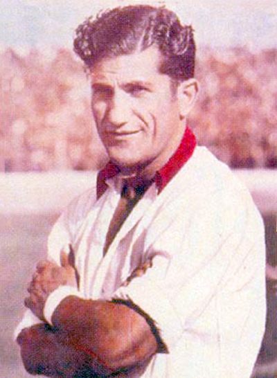 This is a photograph of Herminio Masantonio taken during his time with Huracan in Argentina. He played his last game for the club in 1945.